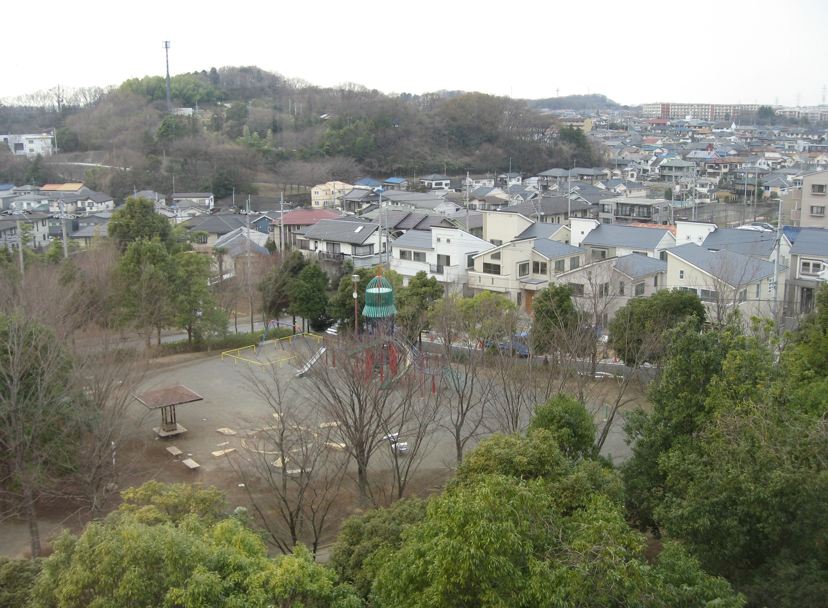 View of Maeda Park and Kurosuda-cho, Aoba-ku, Yokohama, Japan. Taken from Kurosuda Elementary School.